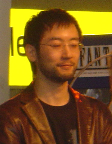 Hiroshi Minagawa